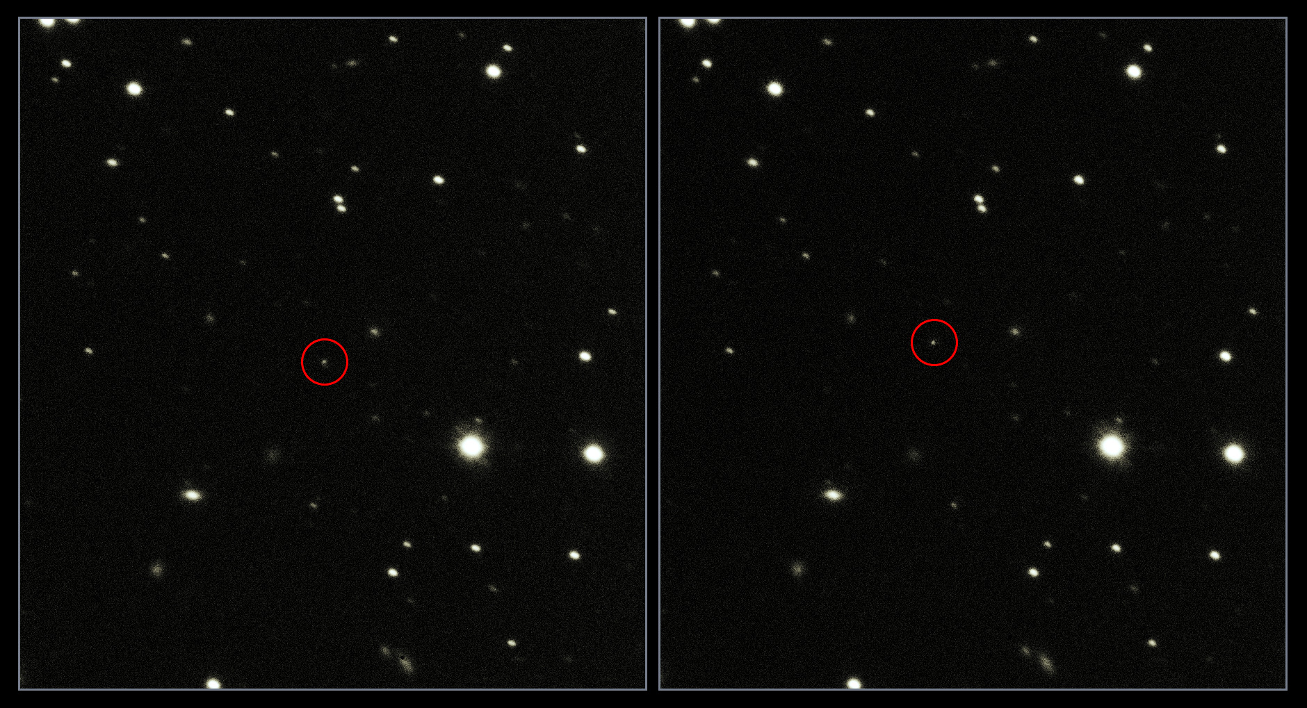 These new images from ESO's Very Large Telescope Survey Telescope (VST) show ESA's Gaia spacecraft in its position some 1.5 million kilometres beyond Earth's orbit. Launched on the morning of Thursday, 19 December 2013, the satellite is on a quest to build a 3D map of our galaxy over the next five years. Mapping the sky has been one of humanity's quests since the dawn of time, and Gaia will take our understanding of our stellar neighbourhood to a whole new level. It will measure very precisely the positions and motions of about one billion stars in our galaxy, to explore the Milky Way's composition, formation and evolution. These new observations are the result of a close collaboration between ESA and ESO to monitor the spacecraft from the ground. Gaia is the most accurate astrometric device ever built, but in order for its observations to be useful it needs to know exactly where it is in the Universe. The only way to know the velocity and position of the spacecraft with very high precision is to observe it on a daily basis from the ground — using telescopes including ESO's VST in a campaign known as Ground-Based Optical Tracking, or GBOT. The VST is a state-of-the-art 2.6-metre telescope equipped with OmegaCAM, a monster 268-megapixel CCD camera with a field of view four times the area of the full Moon. The VST captured these images using OmegaCAM on 23 January 2014, taken about 6.5 minutes apart. Gaia is clearly visible as a small spot moving against a background of stars. Its location is circled in red. In these images, the spacecraft is about a million times fainter than is detectable by the naked eye. Gaia was previously observed in December 2013 by the VST, very soon after its launch — it is one of the closest objects ever observed by the VST. It appeared in precisely the location expected, highlighting a successful collaboration between ground- and space-based astronomy!